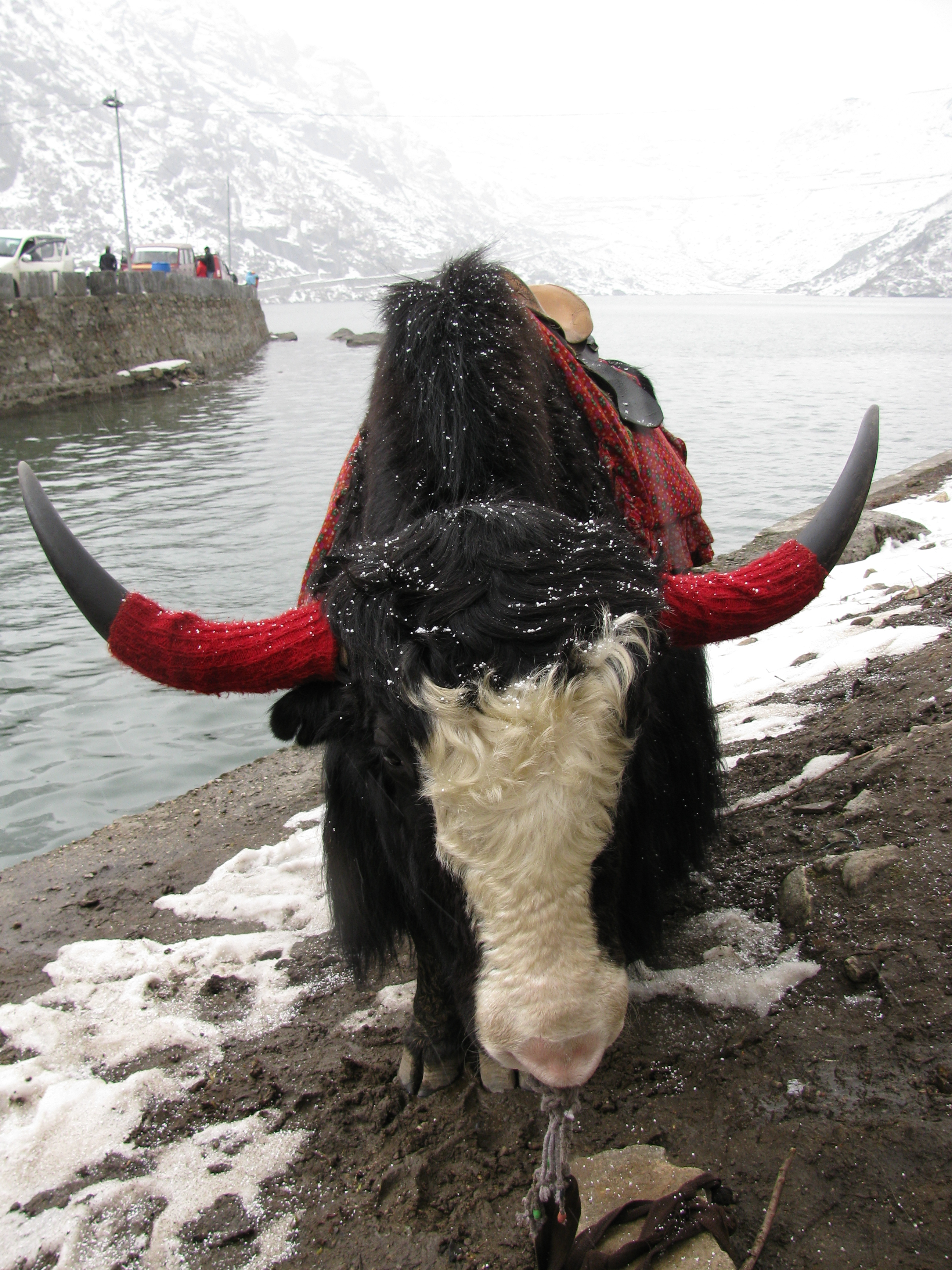 A Yak used for tourist ride in Changu Lake, May 2012